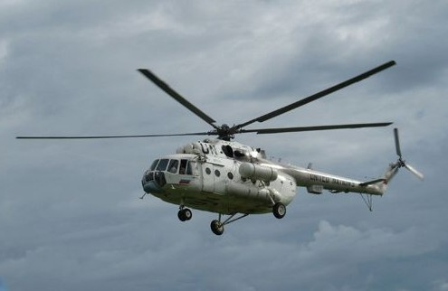 Malau (South Sudan) - A UN helicopter arrives in Malau for an anti-cattle-rustling exercise by the Livestock Protection Unit (LPU)